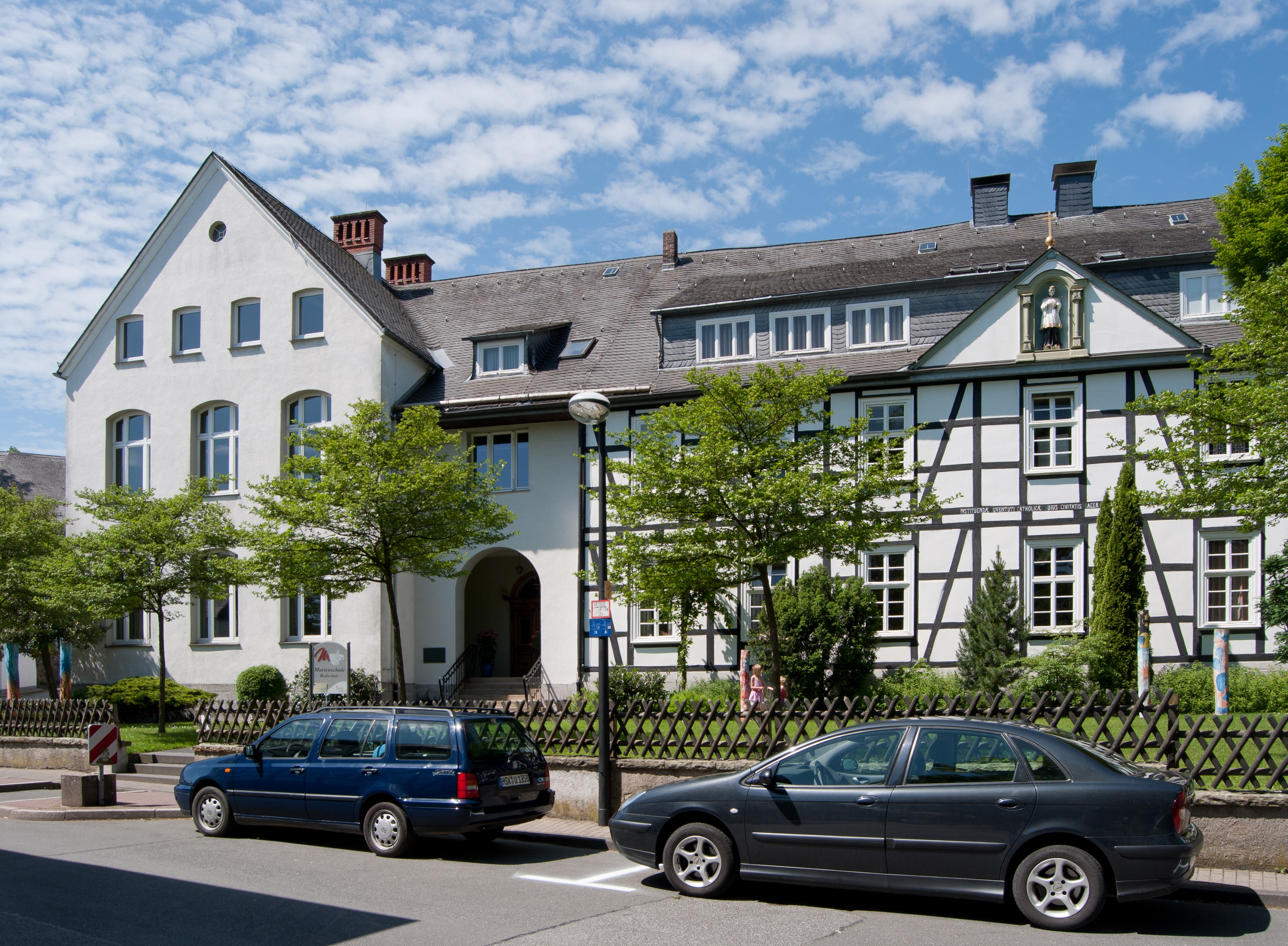 Brilon (North Rhine-Westphalia, Germany) – school Marienschule This image shows a heritage building in Germany, located in the North Rhine-Westphalian city Brilon (no. ?). This photograph was taken with a Nikon D3000